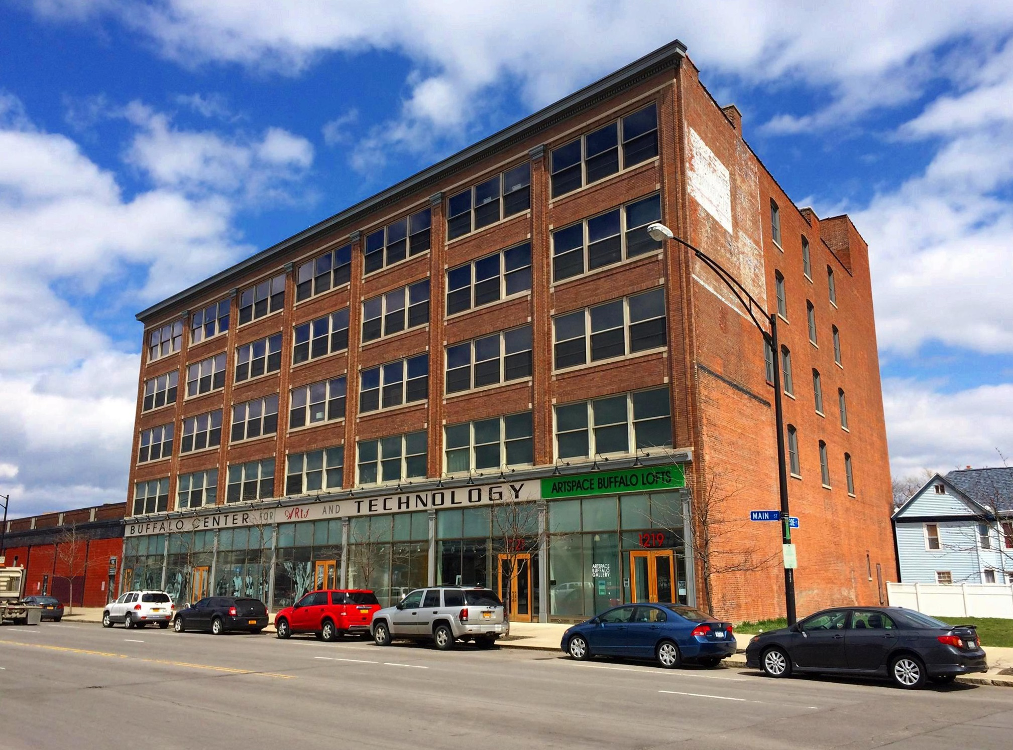 Artspace Buffalo is an artist community and gallery located in the former Buffalo Electric Vehicle Company, in the city's Midtown neighborhood.